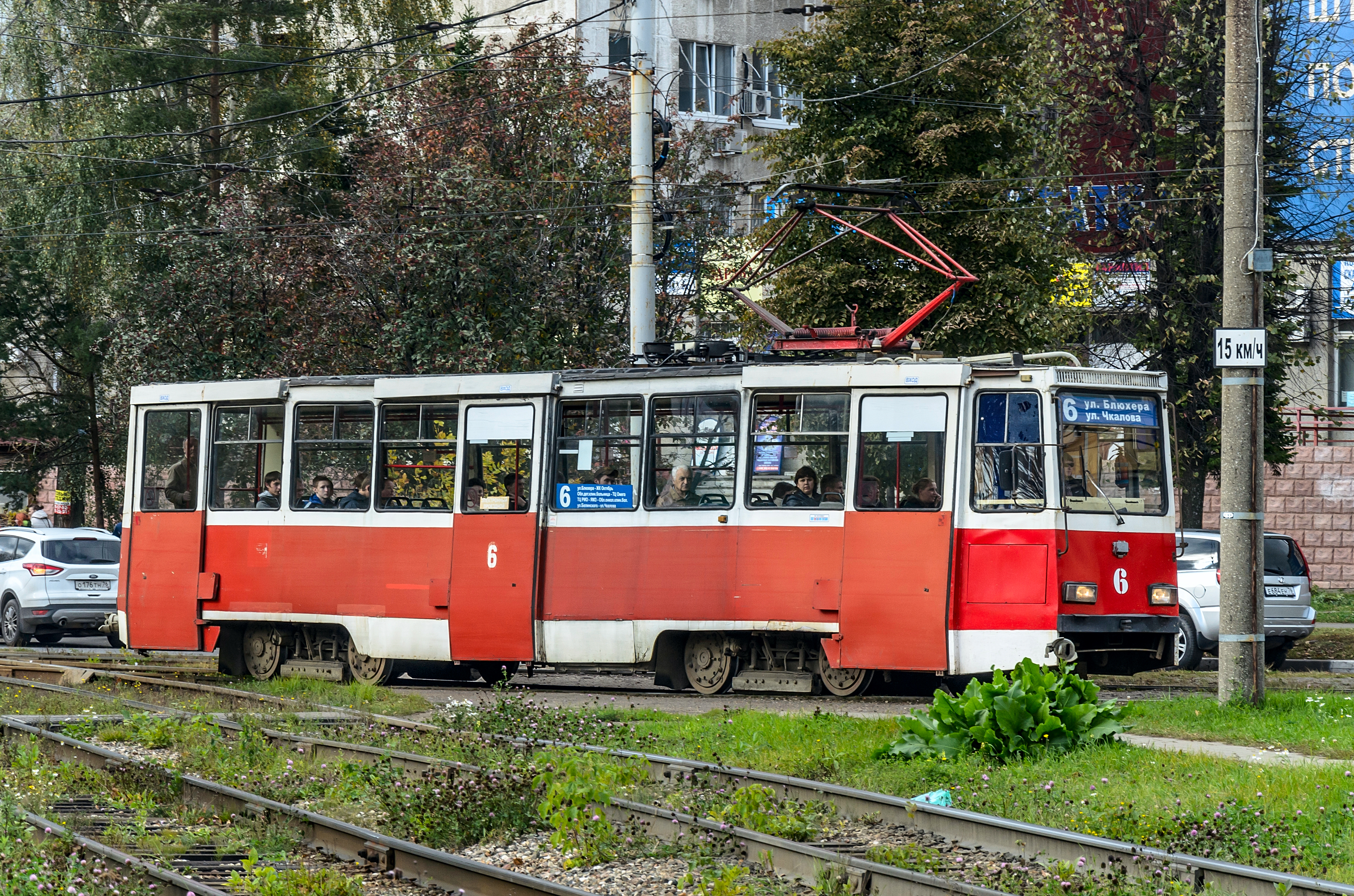 Tram 71-605 at Chkalova Street in Yaroslavl